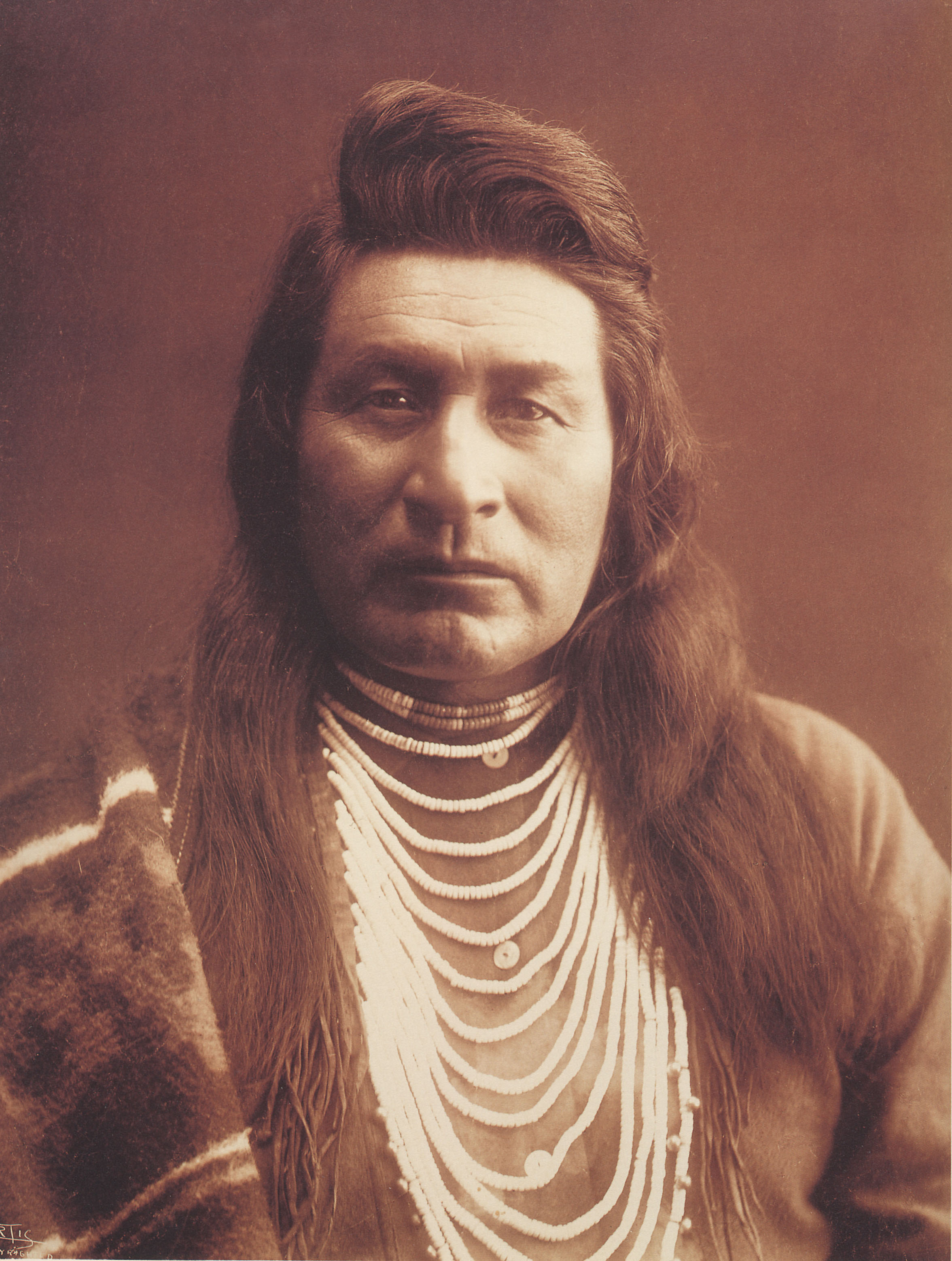 Nez Perce Man. 1899. Photogravure